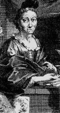 Maria Sibylla Merian (1647–1717) Alternative names Maria Sibylla GraffDescriptionGerman painter, draughtsperson, aquarellist, printmaker, writer and illustratorDate of birth/death 2 April 1647 13 January 1717Location of birth/death Frankfurt AmsterdamWork periodfrom 1670 until 1717 date QS:P,+1500-00-00T00:00:00Z/6,P580,+1670-00-00T00:00:00Z/9,P582,+1717-00-00T00:00:00Z/9Work location Nuremberg (1670-1685), Frankfurt (1685), Friesland (circa 1685-1695), Amsterdam (1695-1717), Suriname (1699-1701)Authority control : Q62530 VIAF: 106967757 ISNI: 0000 0001 2103 6369 ULAN: 500009826 LCCN: n80115855 NLA: 35859409 WorldCat creator QS:P170,Q62530